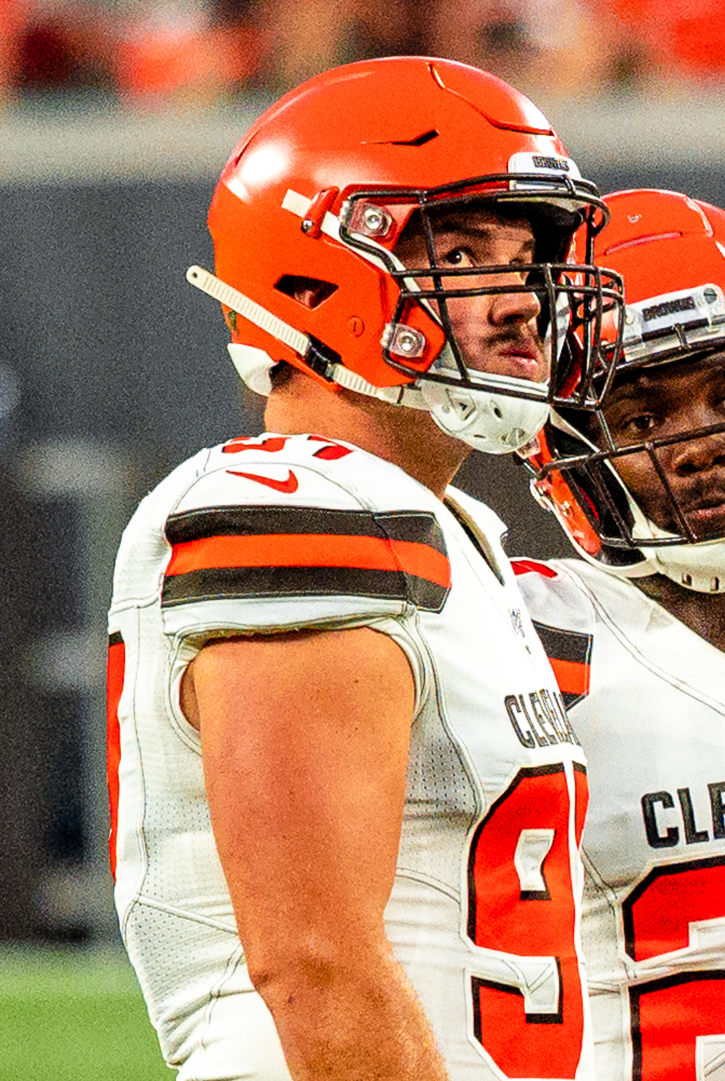 Several Cleveland Browns defensive end, Anthony Zettel, during a preseason game against the Washington Redskins on August 8, 2019.